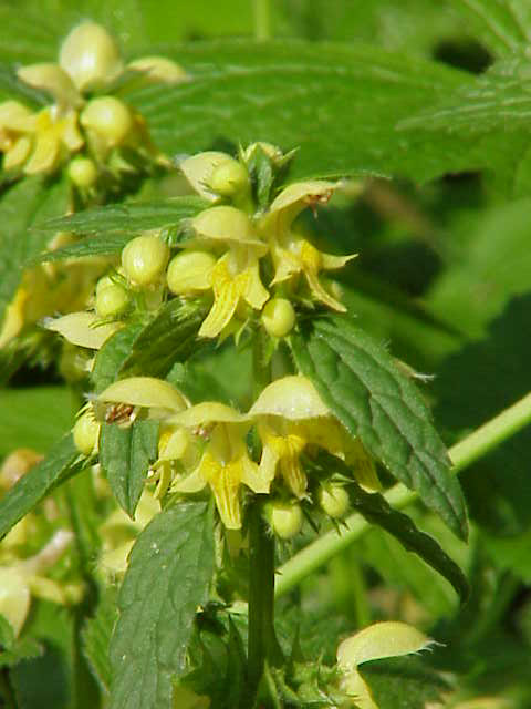 Species: Galeobdolon luteum Family: Lamiaceae Image No. 1